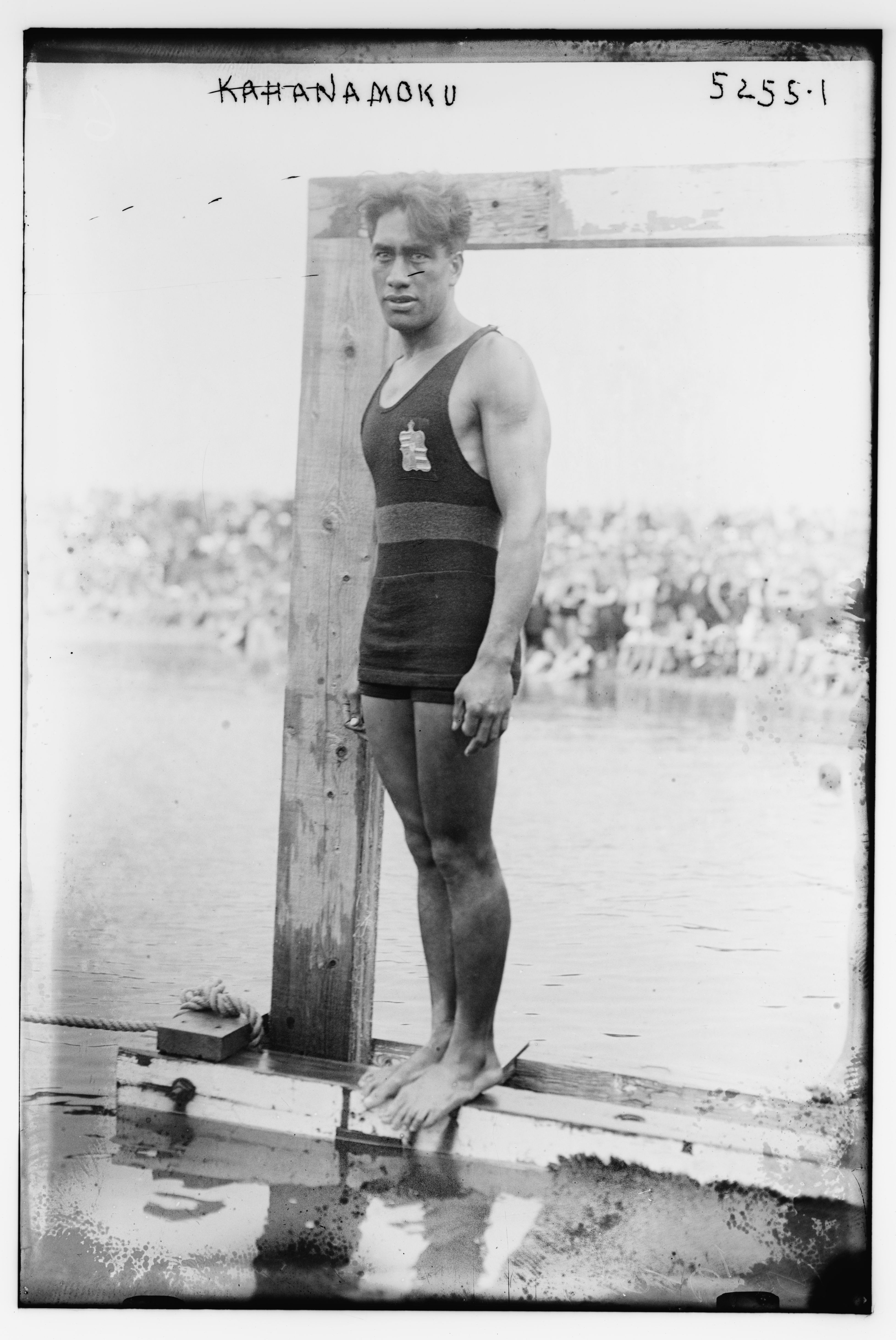 Bain News Service, publisher. Duke P. Kahanamoku